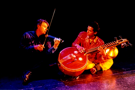 Raghunath Manet et Didier Lockwood Spectacle Omkara